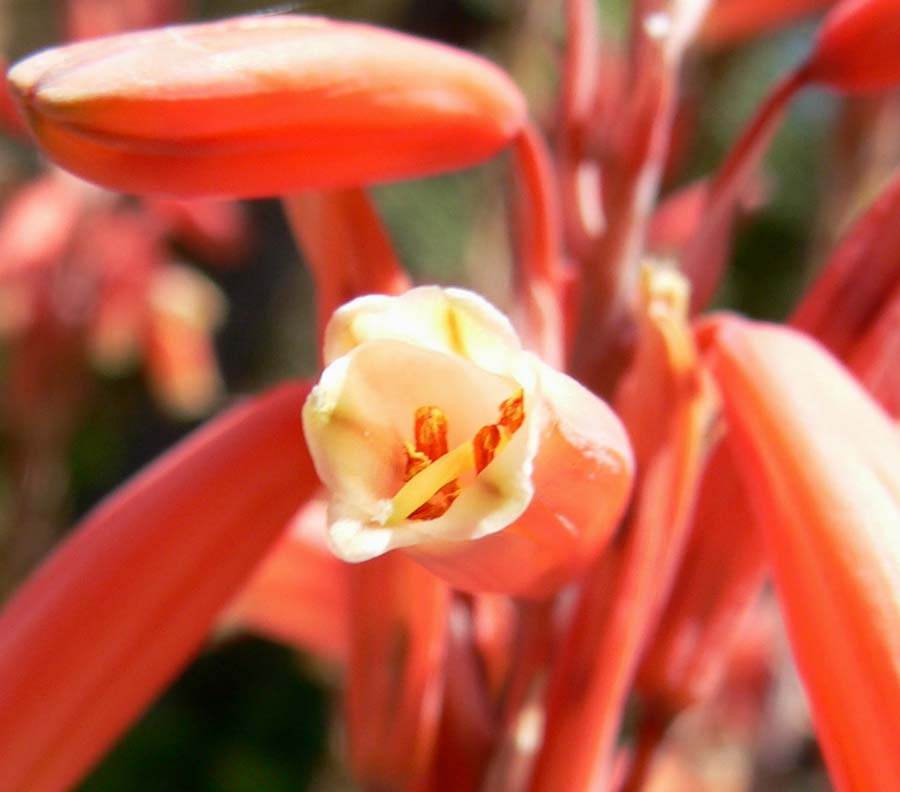 Photo of Aloe hybrid 'Blue Elf' flower at the Desert Demonstration Garden in Las Vegas, Nevada